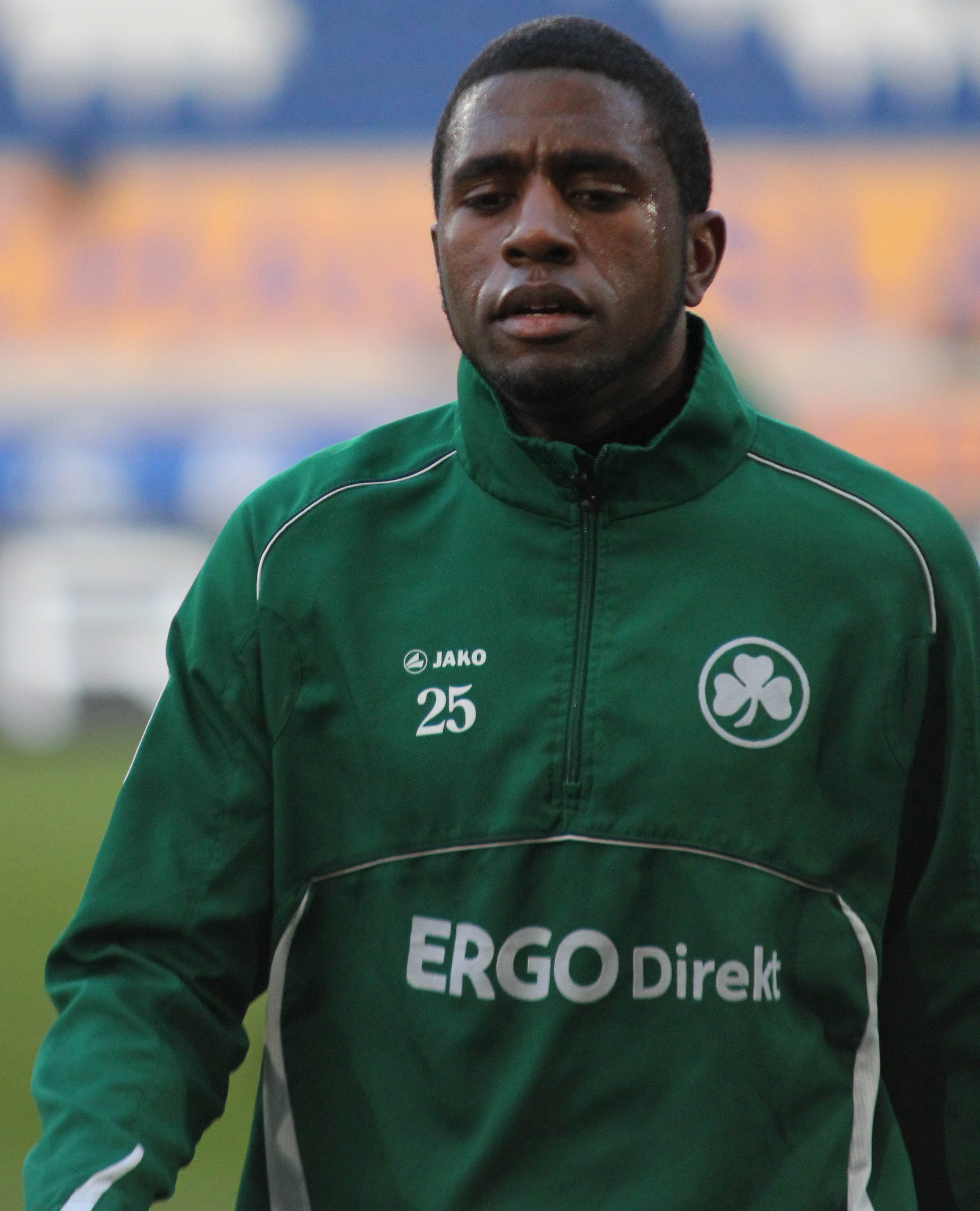 Canadian footballer Olivier Occean, SpVgg Greuther Fürth